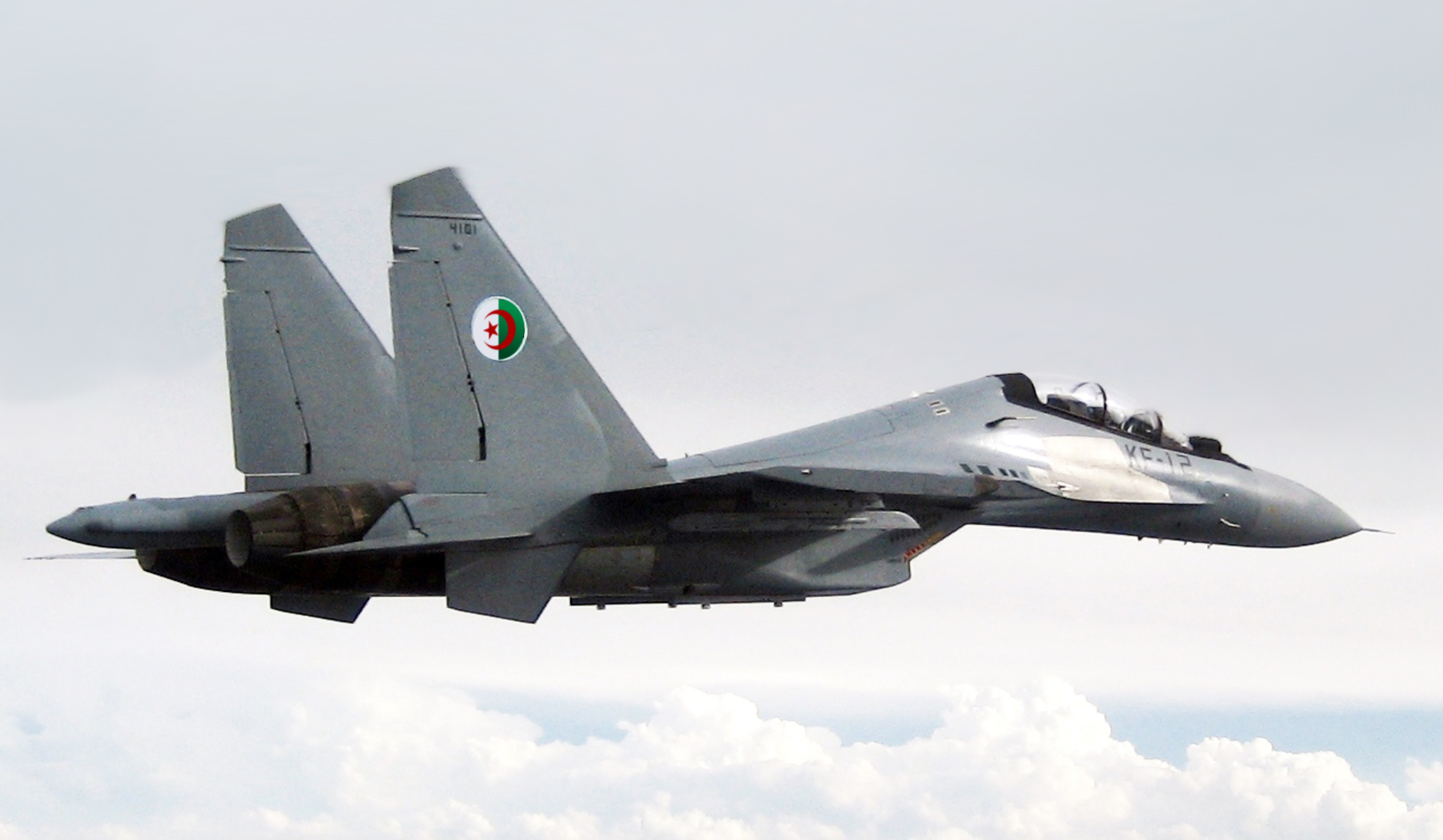 30MKA de l'armée de l'air algérienne